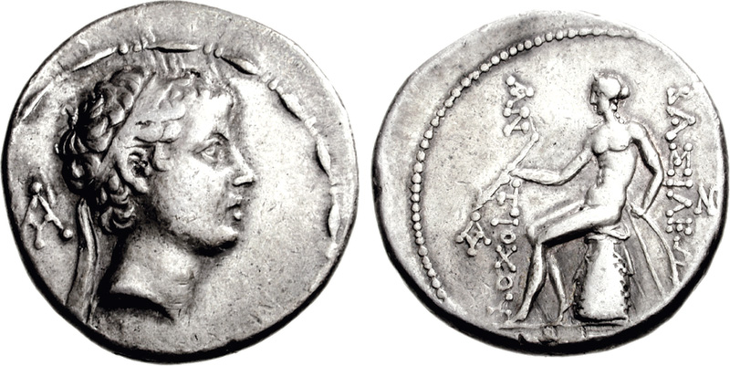 SELEUKID KINGS of SYRIA. Antiochos V Eupator. 164-162 BC. AR Tetradrachm (16.72 g, 1h). Ake Ptolemais mint. Diademed head right; monogram behind head / Apollo Delphios seated left; monograms to outer left, outer right, and [in exergue]. SNG Spaer -; Houghton & Le Rider, “Le deuxième fils d’Antiochos IV à Ptolémaïs,” SNR 64 (1985), 13 (D1/R7) = Houghton 775 (Antiochus, son of Seleucus IV) = Houghton & Le Rider, "Un trésor de monnaies hellénistiques trouvé près de Suse," RN 1966, 16 (this coin). VF, toned. Rare.